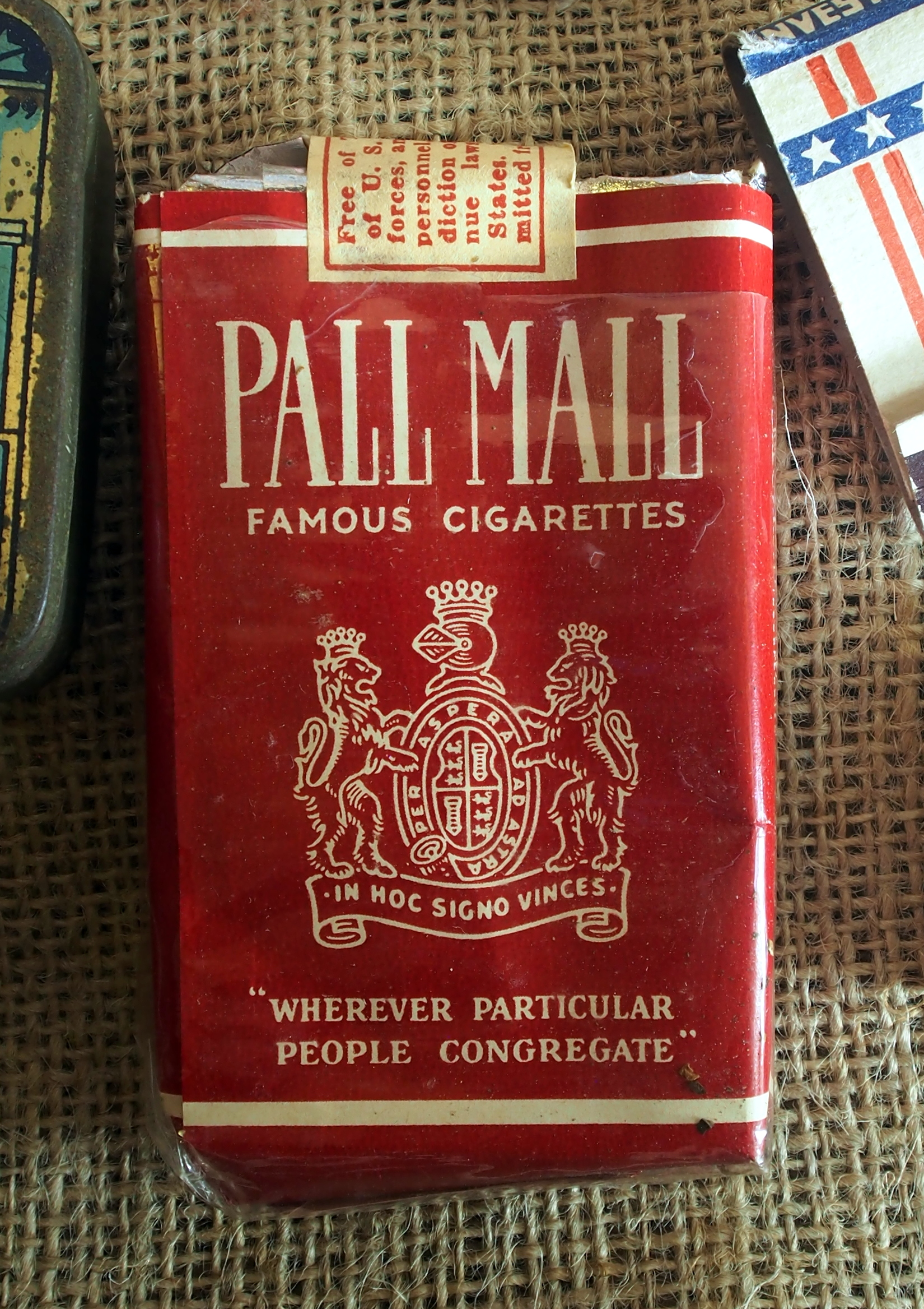 Photographed at the Museum Winter 1944 in Gingelom, Belgium.